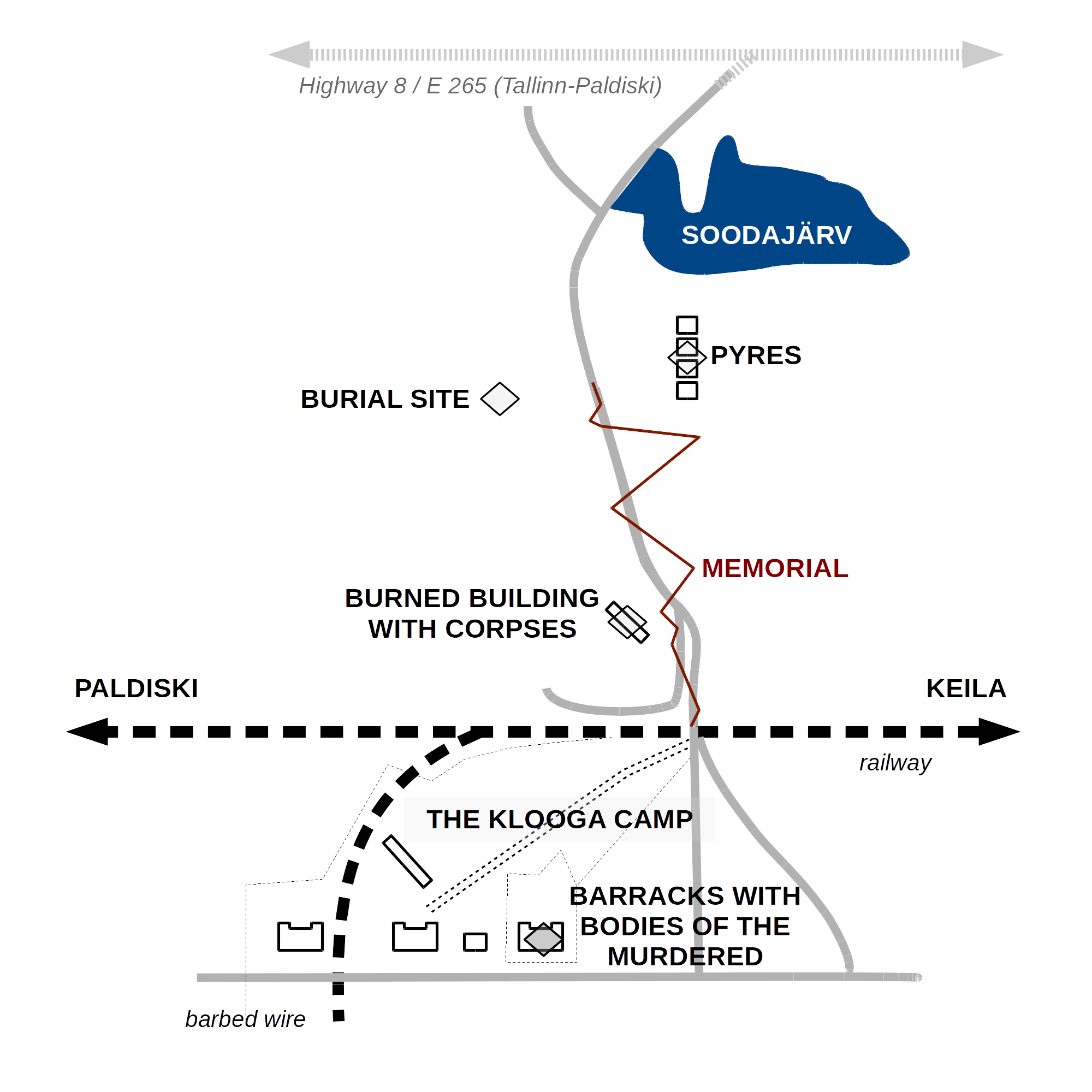 Klooga Concentration Camp - English version